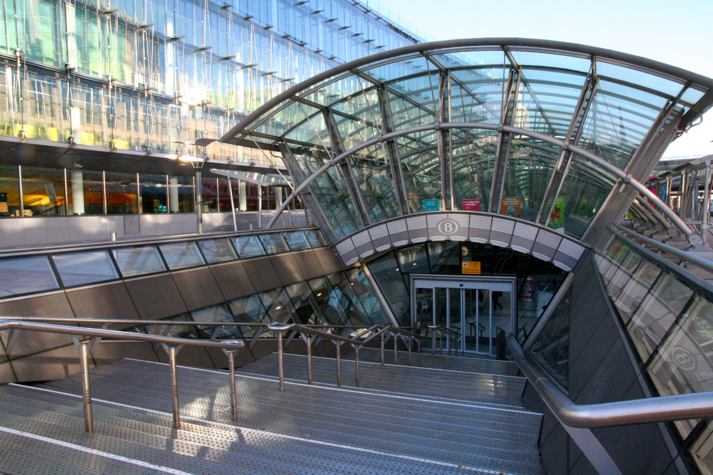 Entry to Brussels-Luxembourg Station